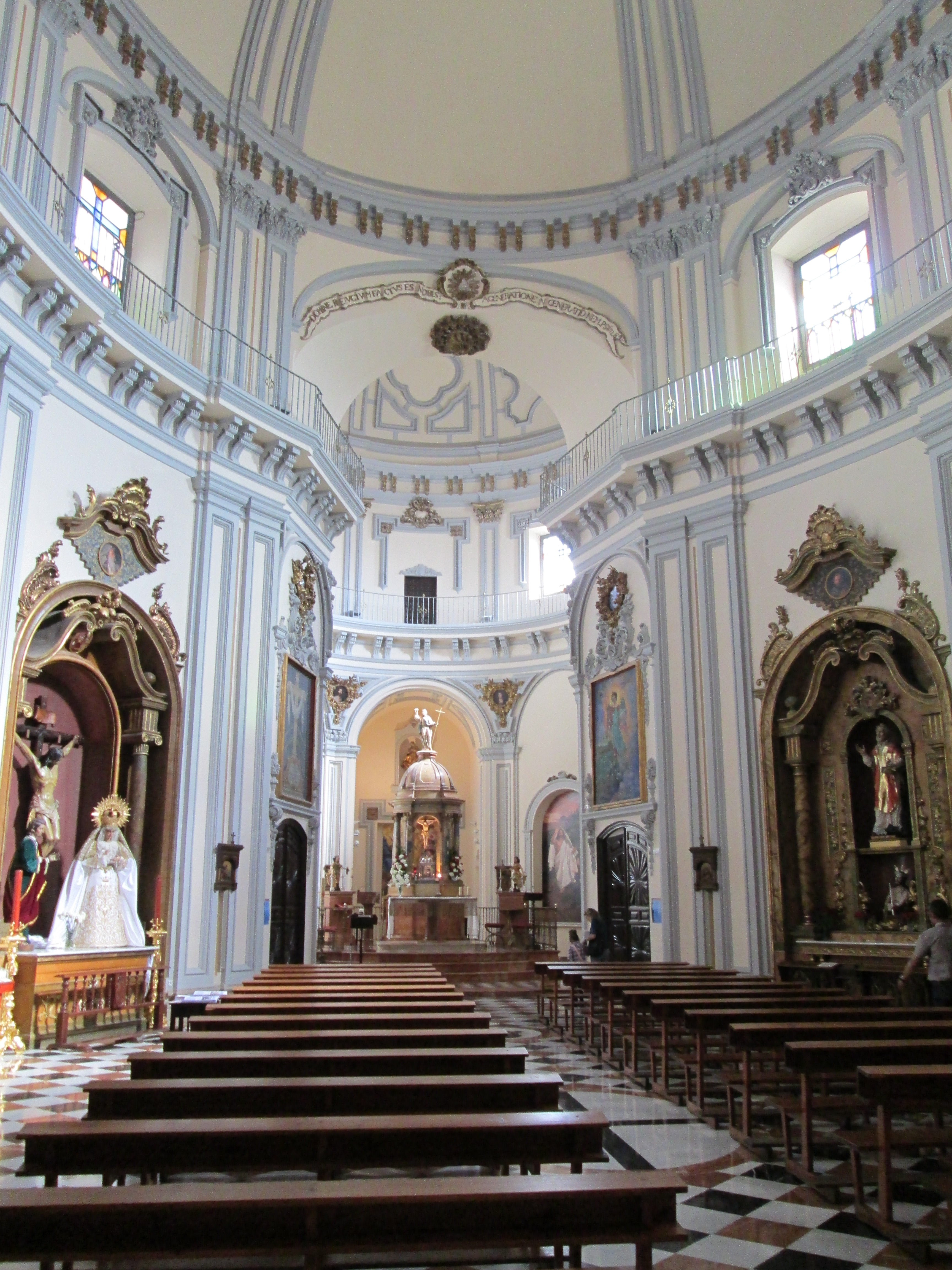 Málaga San Felipe Neri